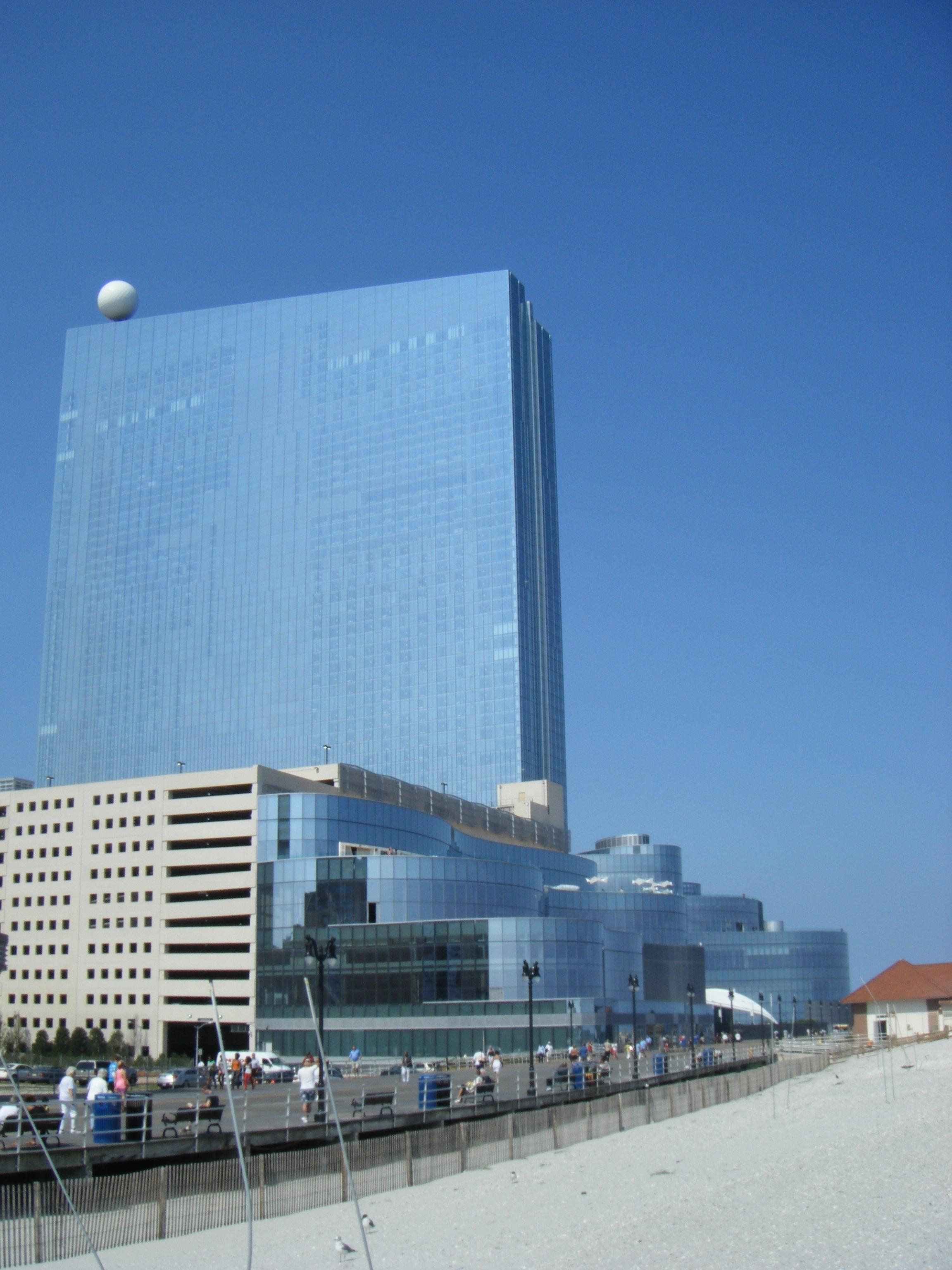 The Revel Atlantic City (now Ocean Resort Casino) resort in Atlantic City, New Jersey seen from the boardwalk